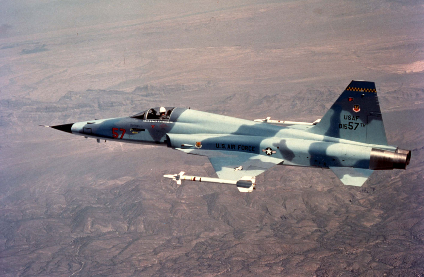 Northrop F-5E (Tail No. 01557) Image from National Museum of USAF - not copyrighted